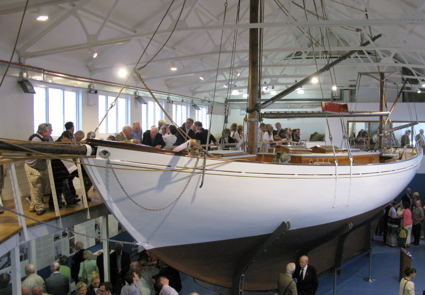 Restored yacht Asgard at National Museum of Ireland, Collins Barracks, Dublin. Official opening, 09-08-2012.